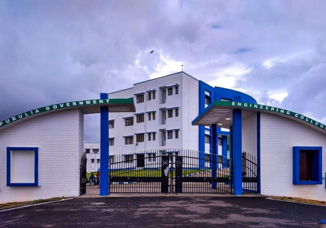 This is the Entrance to this College